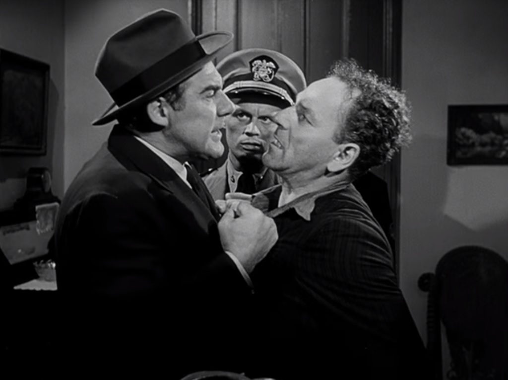 L. to R. : Paul Douglas, Richard Widmark & Alexis Minotis in Panic in the Streets - trailer (cropped screenshot)